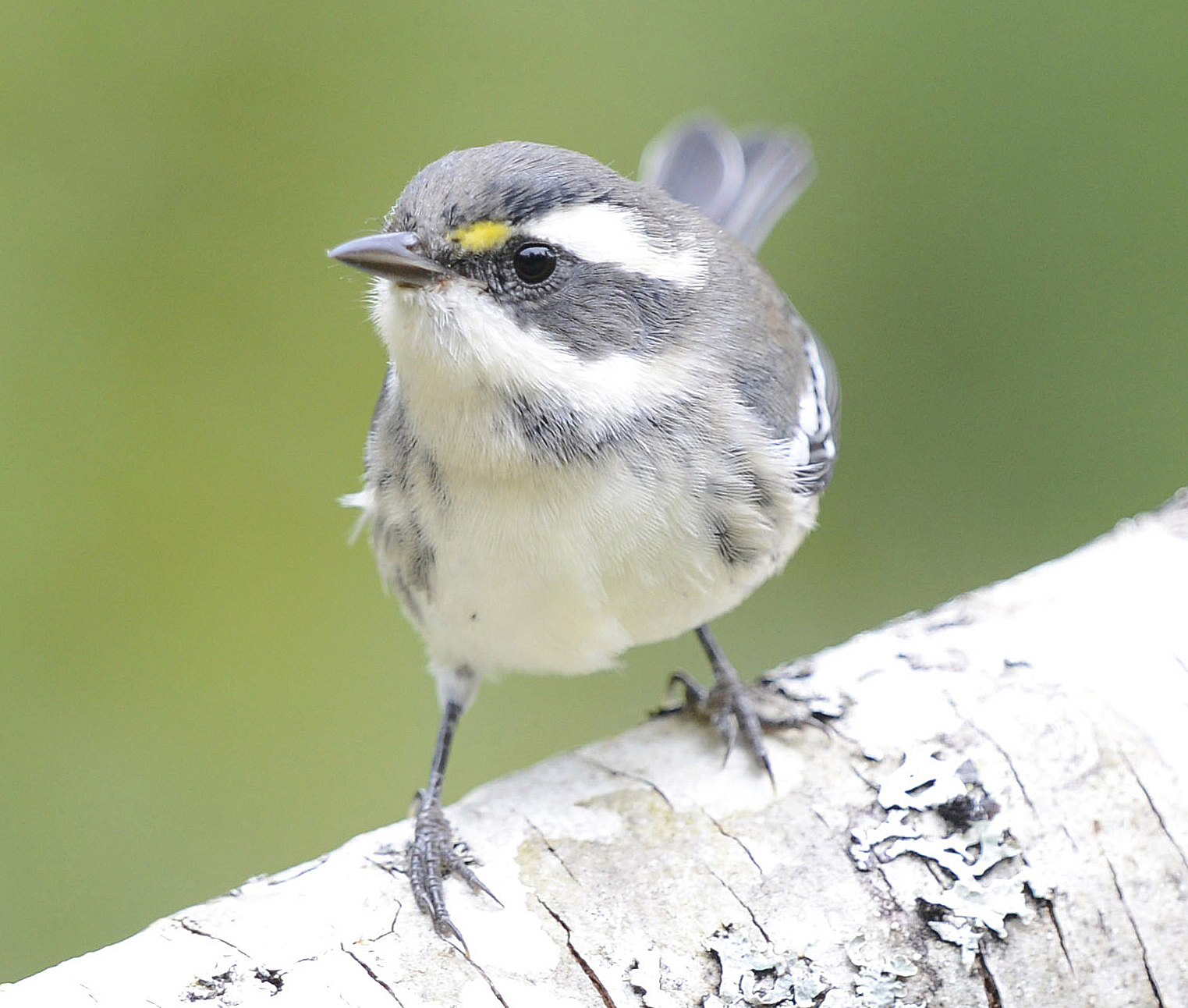 Black-throated Gray Warbler (Setophaga nigrescens), female, western Washington State